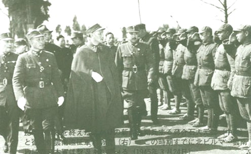 1945 Chiang Kai-shek inspected Chinese soldiers with shoes made of straw.